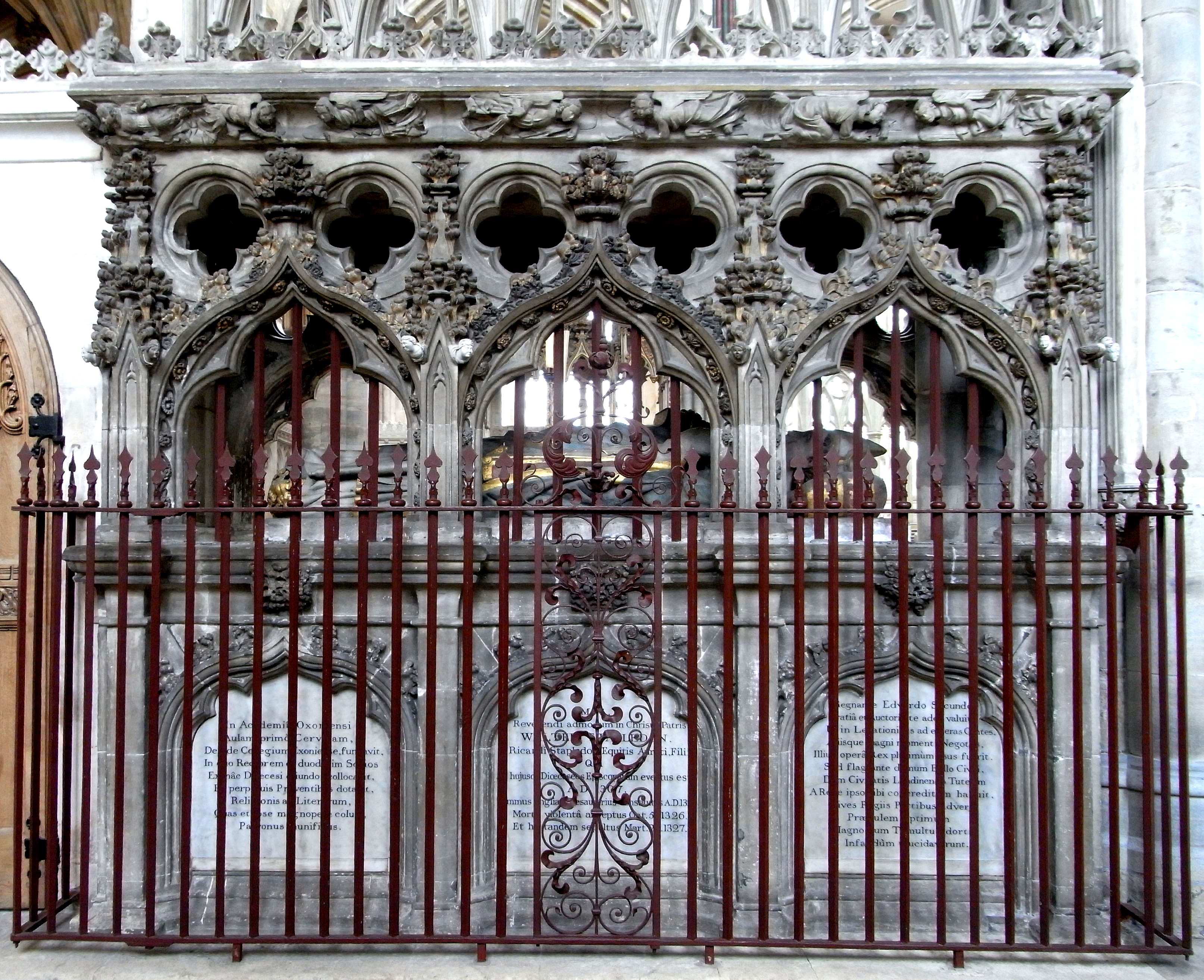 North (rear) side of monument to Bishop Walter de Stapledon (d.1326), Bishop of Exeter, Exeter Cathedral. Showing three later marble tablets inscribed in Latin. Another longer latin eulogy by John Hooker (For transcript see: John Prince, Worthies of Devon, first published c. 1701, 1810 edition, pp.725-6), erected by Bishop William Alleigh in 1568, is not now visible.